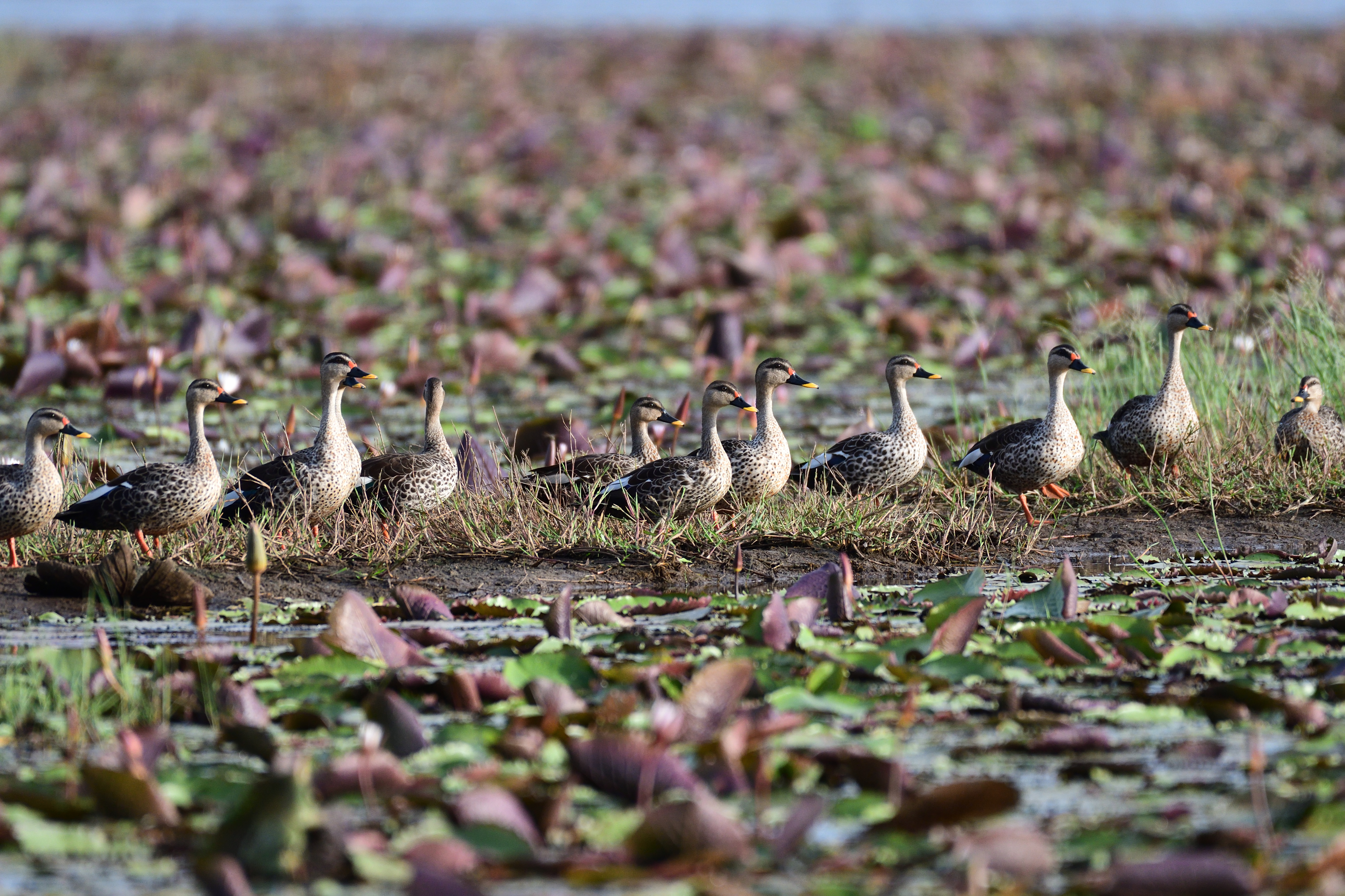 Indian spotbilled duck from polachira . pc Dr Jishnu R